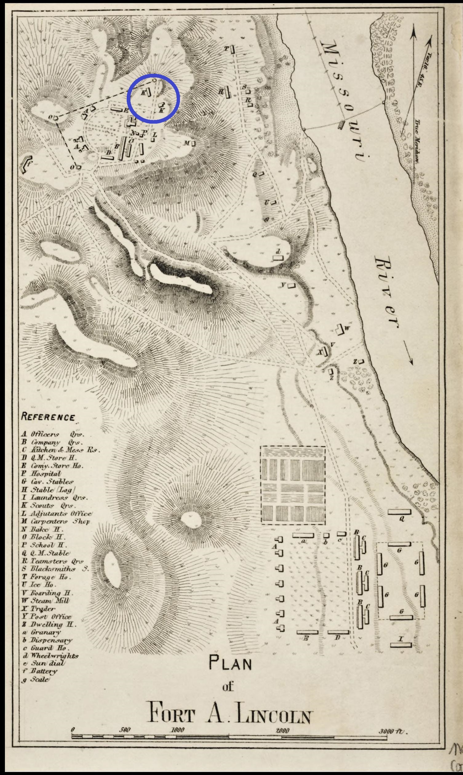 Map showing military post Fort McKeen in North Dakota, later renamed Fort Abraham Lincoln. Adabted to an article about the Arikara Indian scouts in the U.S. Army